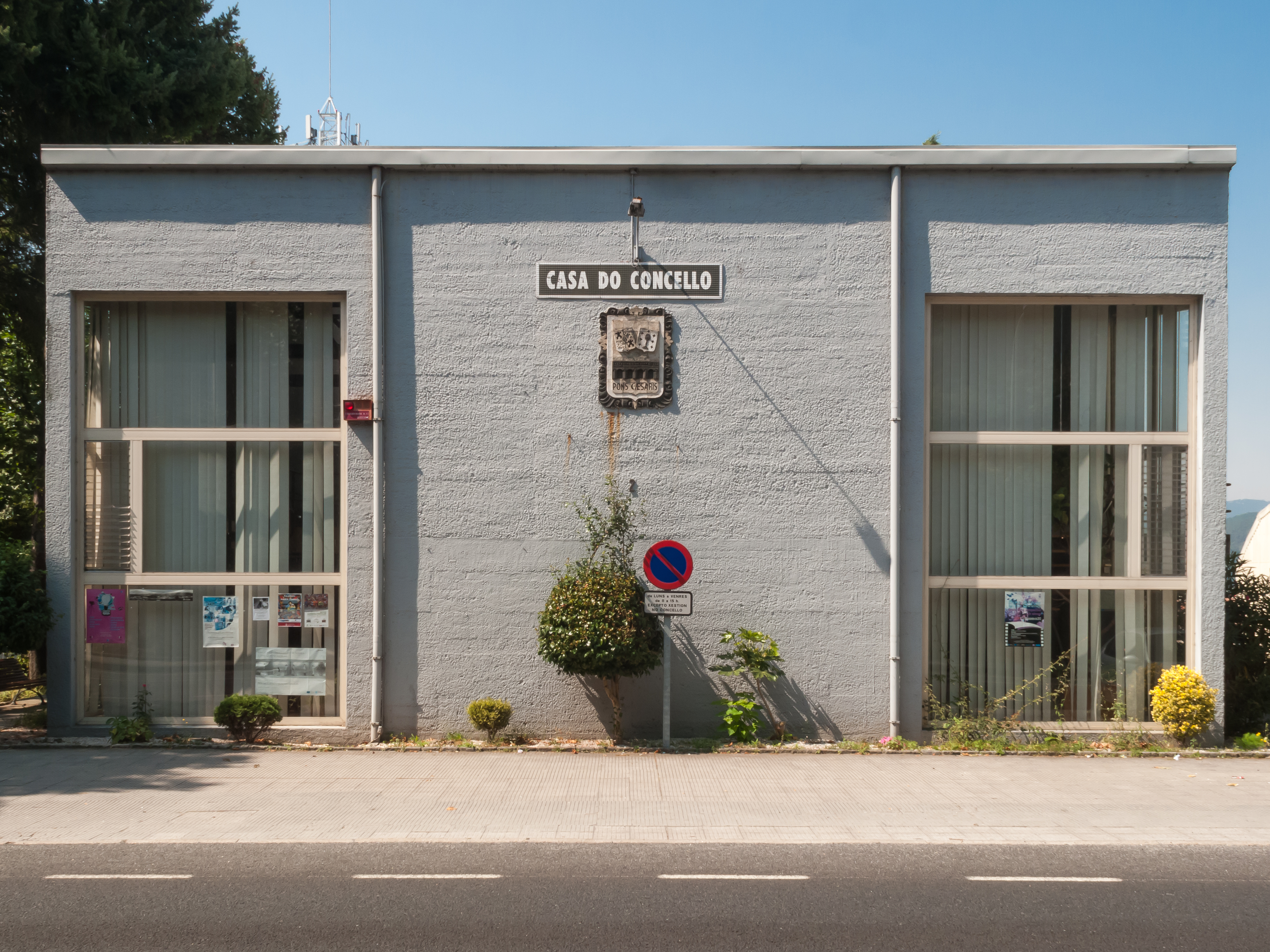 Town hall of Pontecesures. Pontecesures. Galicia (Spain)